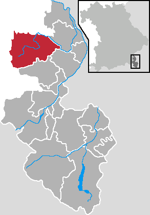 Locator maps of municipalities in Bavaria - District Berchtesgadener Land